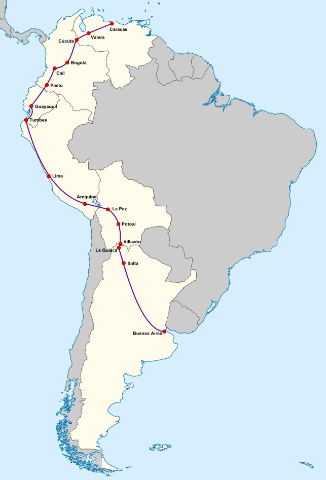 Location map of SouthAmerica. * Projection: Lambert azimuthal equal-area projection. * Area of interest: :* N: 25.0° N :* S: -60.0° N :* W: -90.0° E :* E: -30.0° E * Projection center: :* NS: -17.5° N :* WE: -60.0° E * GMT projection: -JA-60/-17.5/20.0c * GMT region: -R-111.71735564517205/-55.20793284837989/-29.863824948966922/25.8980715779886r * GMT region for grdcut: -R-112.0/-63.0/-8.0/26.0r * Made with Natural Earth. Free vector and raster map data @ .